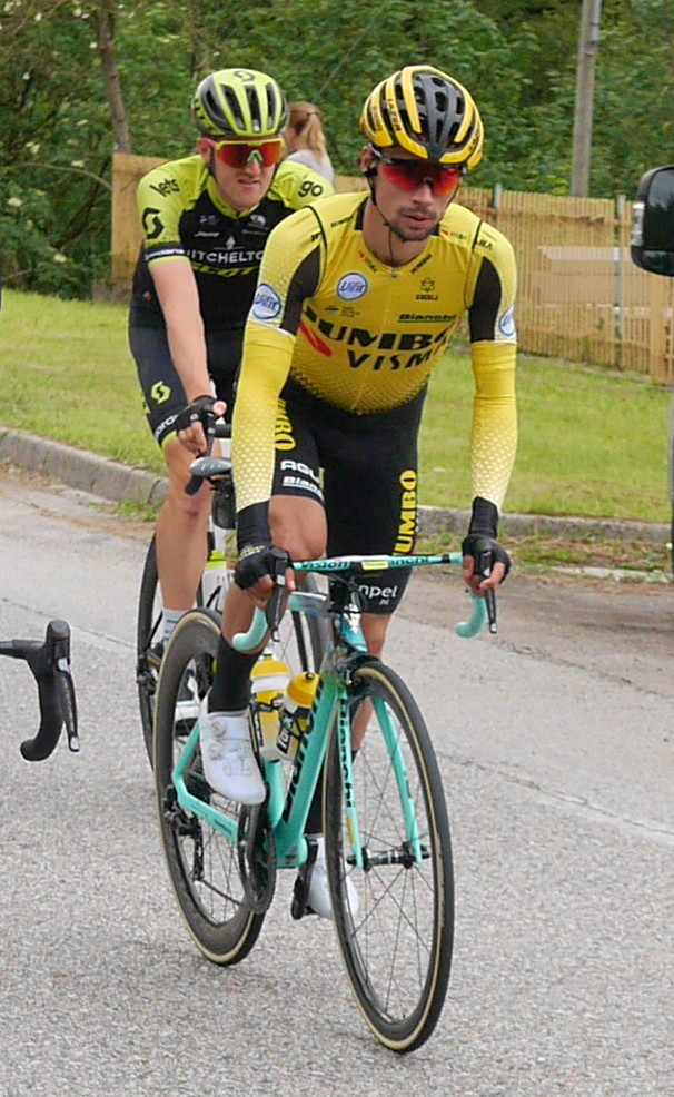 Primož Roglič 2019 Giro d'Italia, Stage 18 (Team Jumbo-Visma)